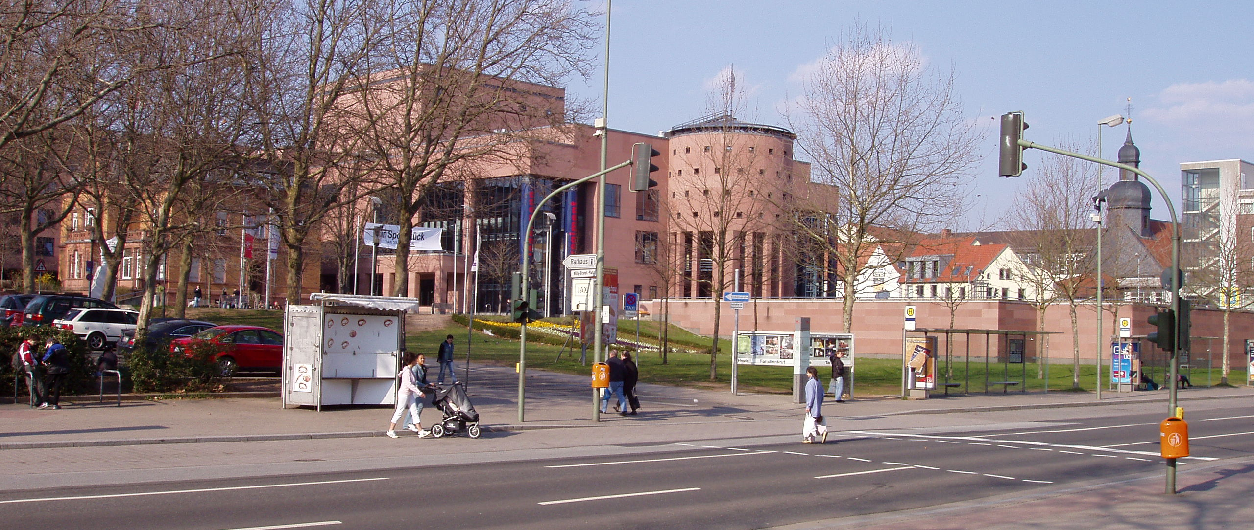 Panorama photo of the Pfalztheater in Kaiserslautern